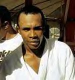 Sugar Ray Leonard (american boxer)